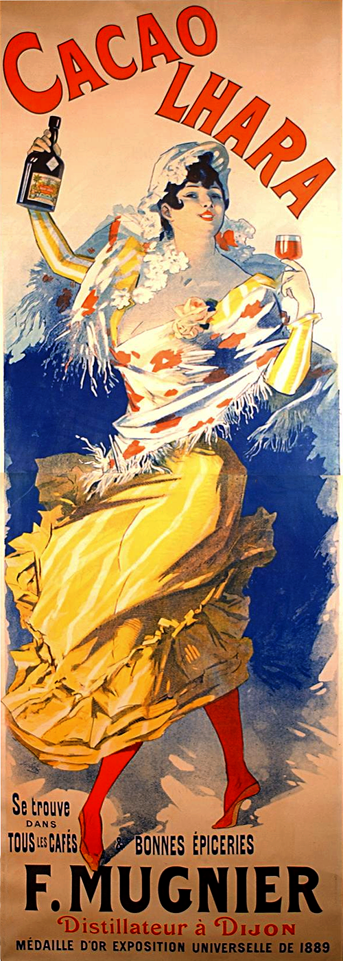 advertizing for "Cacao Lhara"